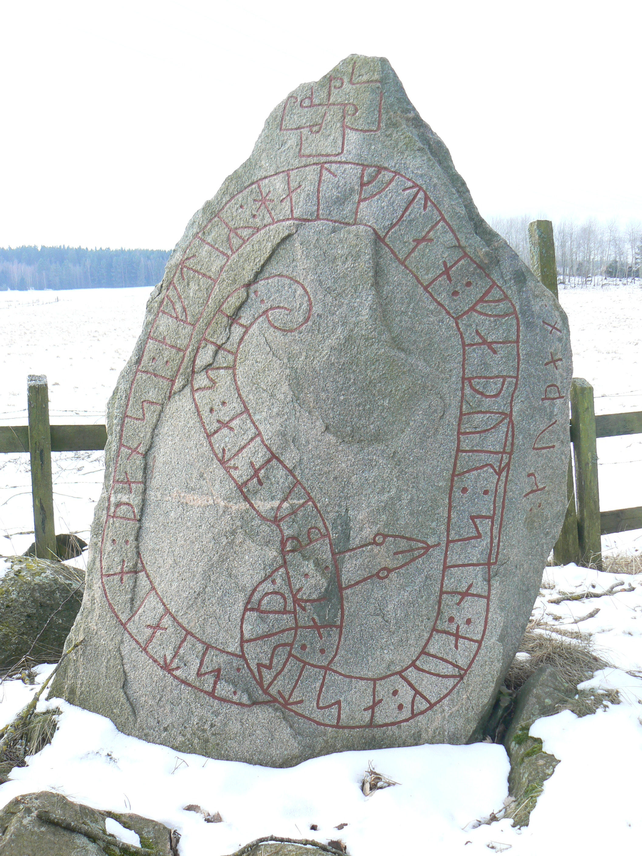 Östergötlands runinskrifter 224, runestone outside Linghem, Östegötland. North side.